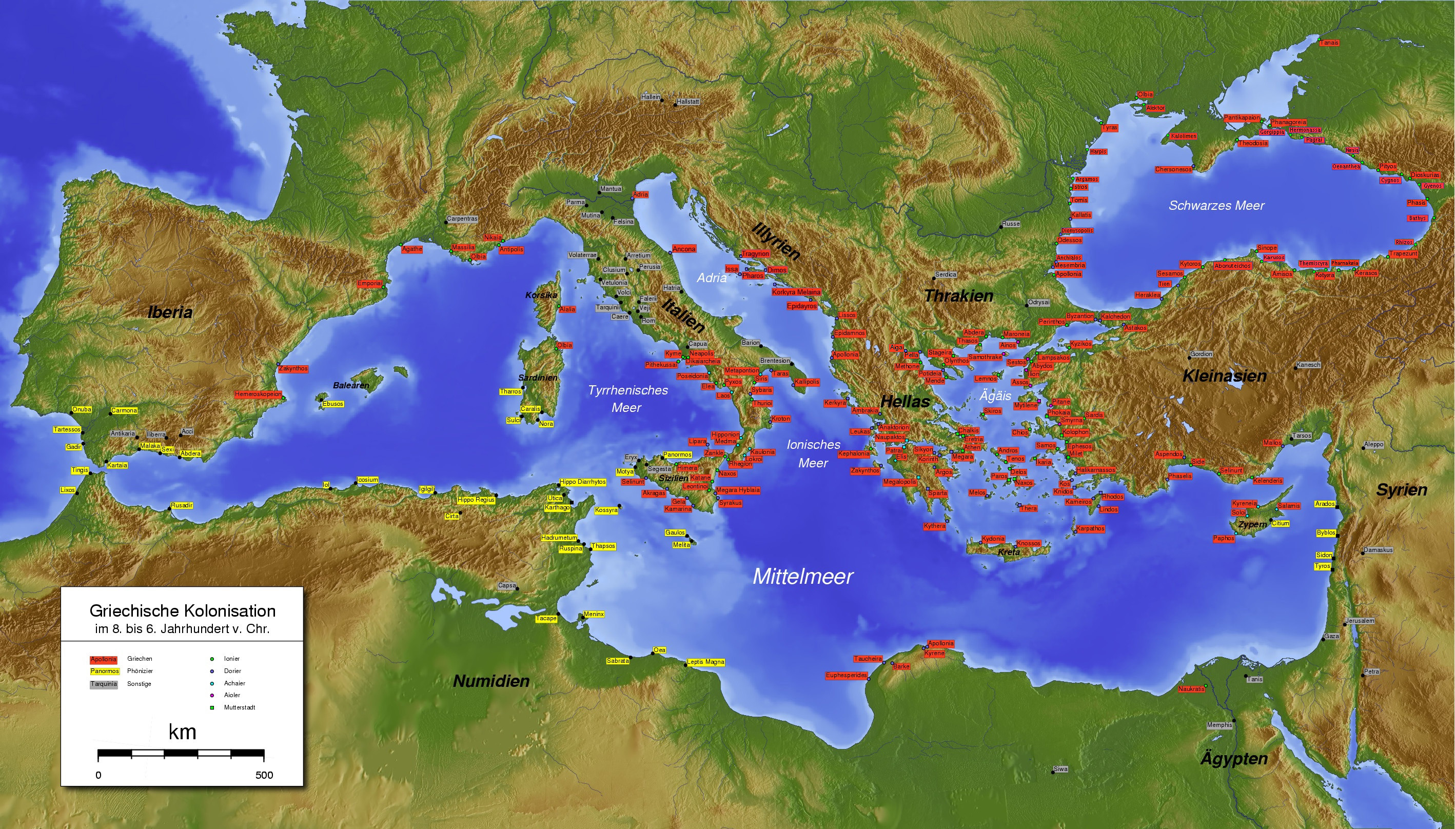 Greek and Phoenician colonies in the fourth century BC. The map from which it was drawn illustrates the situation in previous centuries.